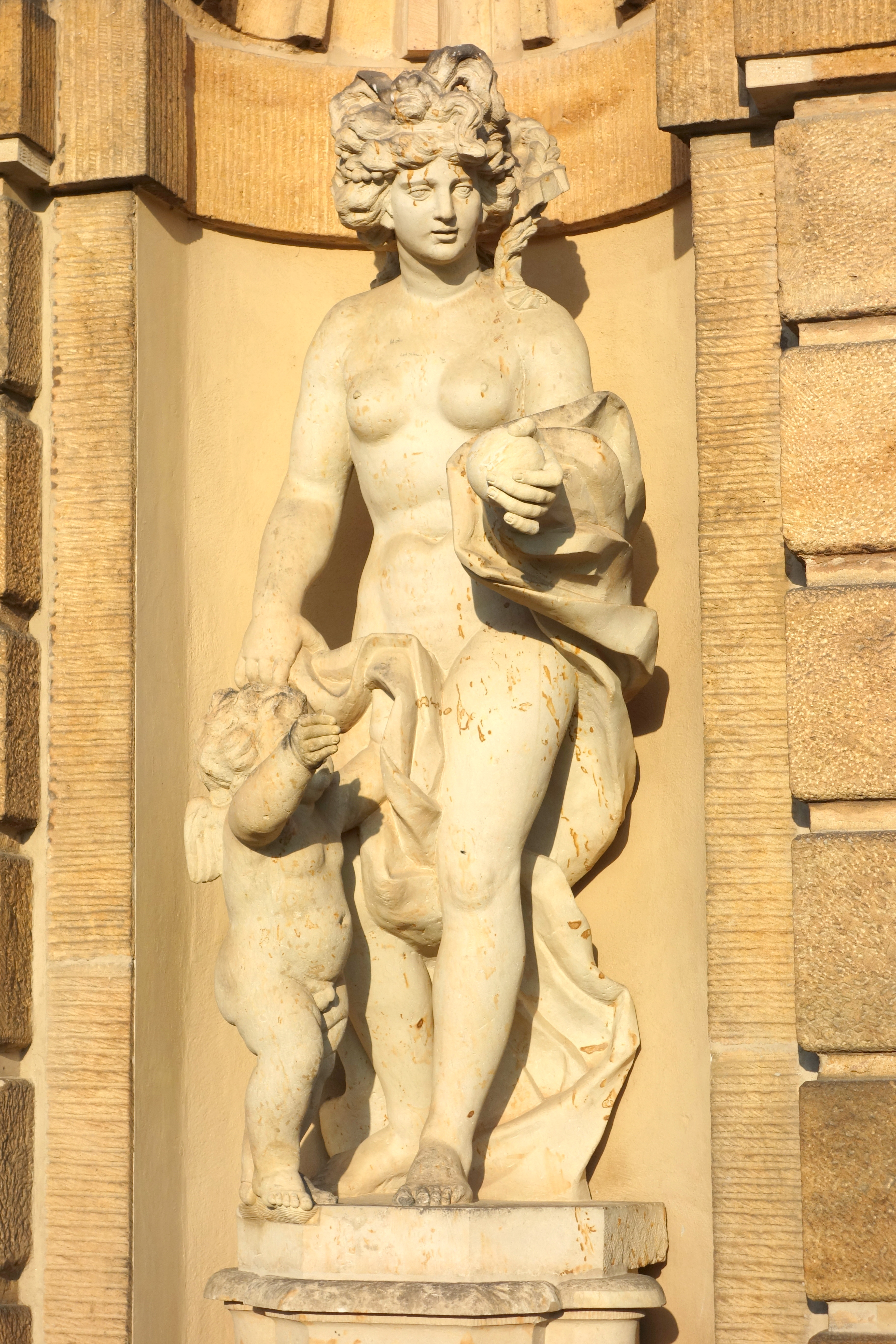 Statue at the Palais im Großen Garten - Dresden, Germany. This artwork is old enough so that it is in the public domain.